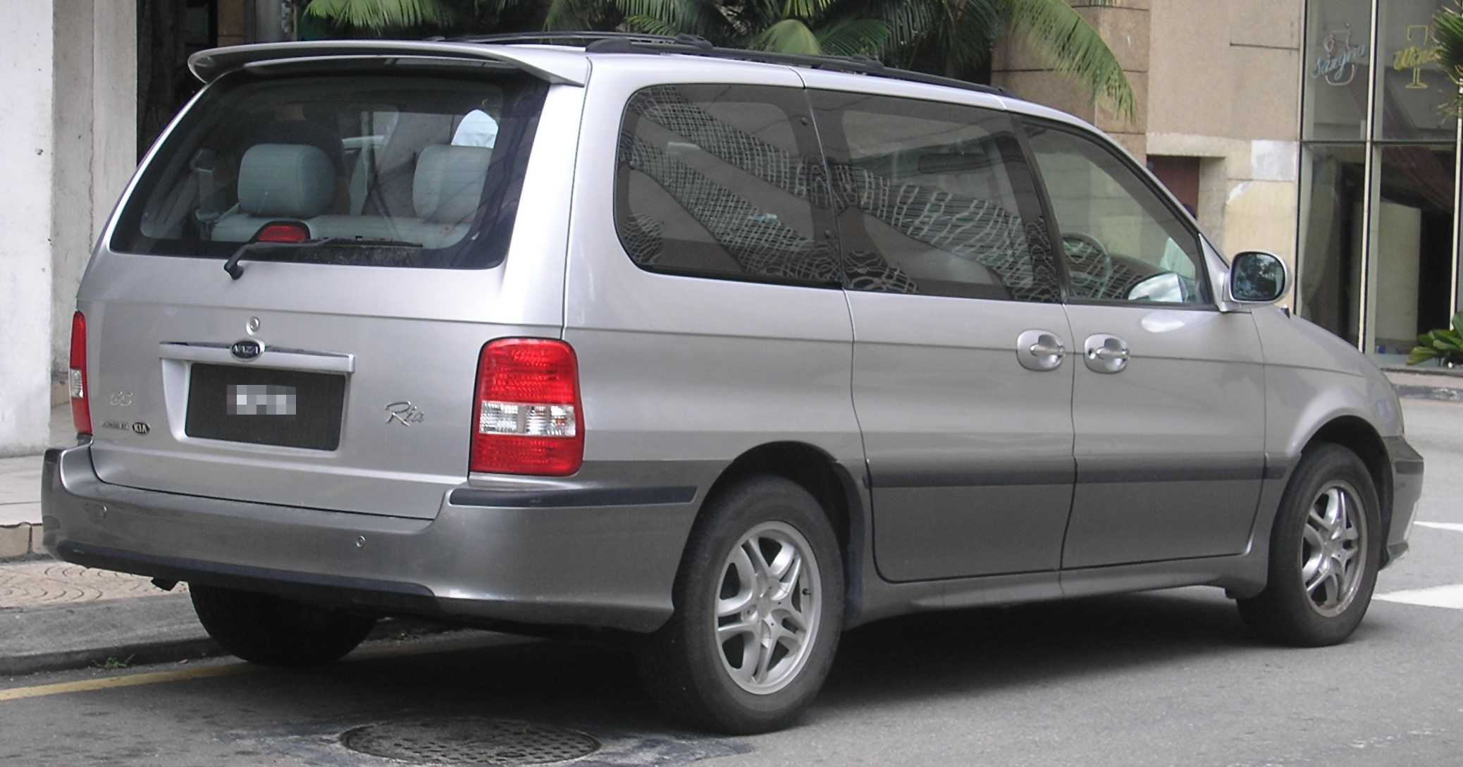 Rear quarter view of a first generation Naza Ria (essentially a rebadged Kia Carnival/Sedona) in Bukit Bintang, Kuala Lumpur, Malaysia.